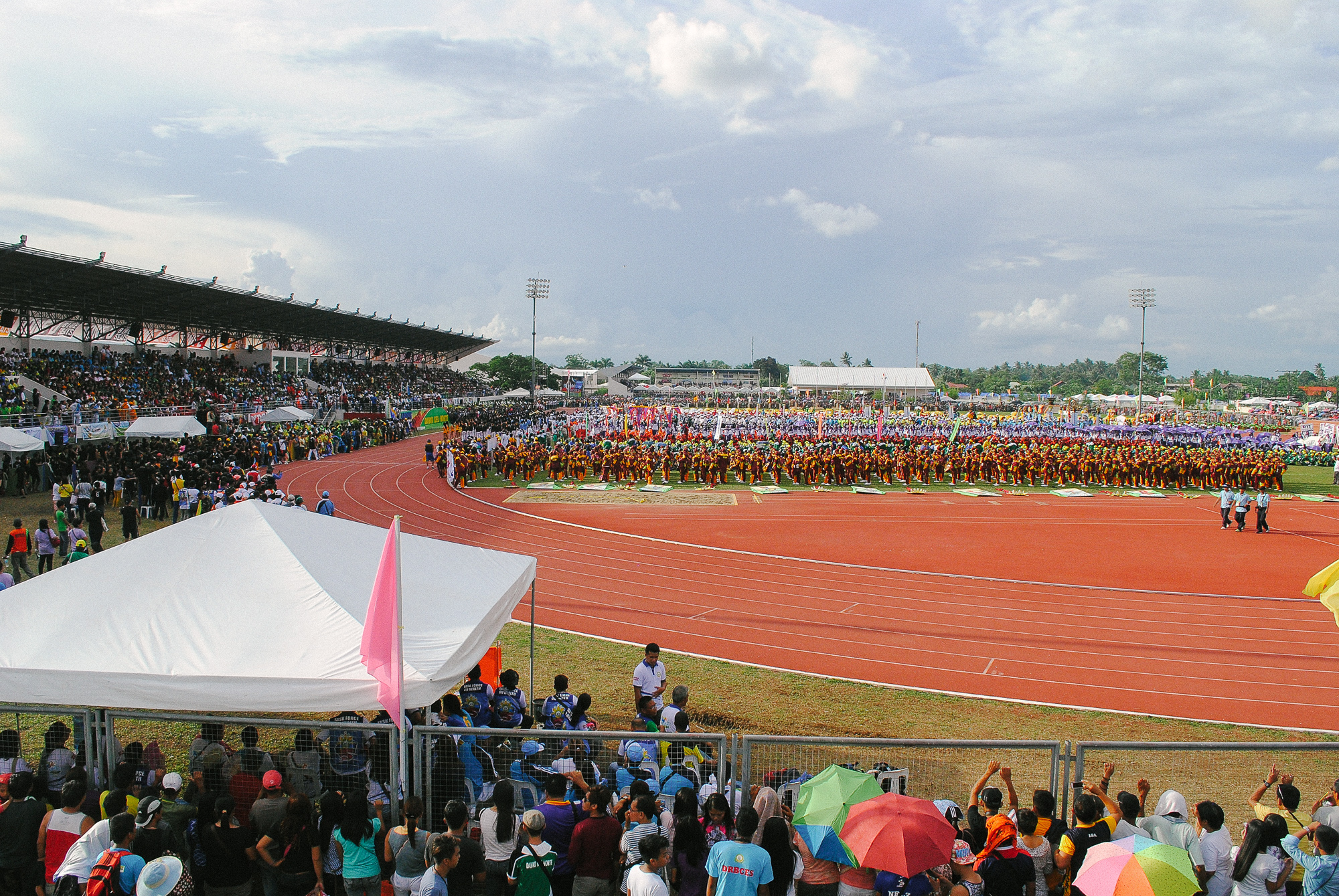 The participants all set themselves at the Davao del Norte Sports and Tourism Complex during the Opening Ceremony of the Palarong Pambansa 2015 in Tagum City, Davao del Norte.